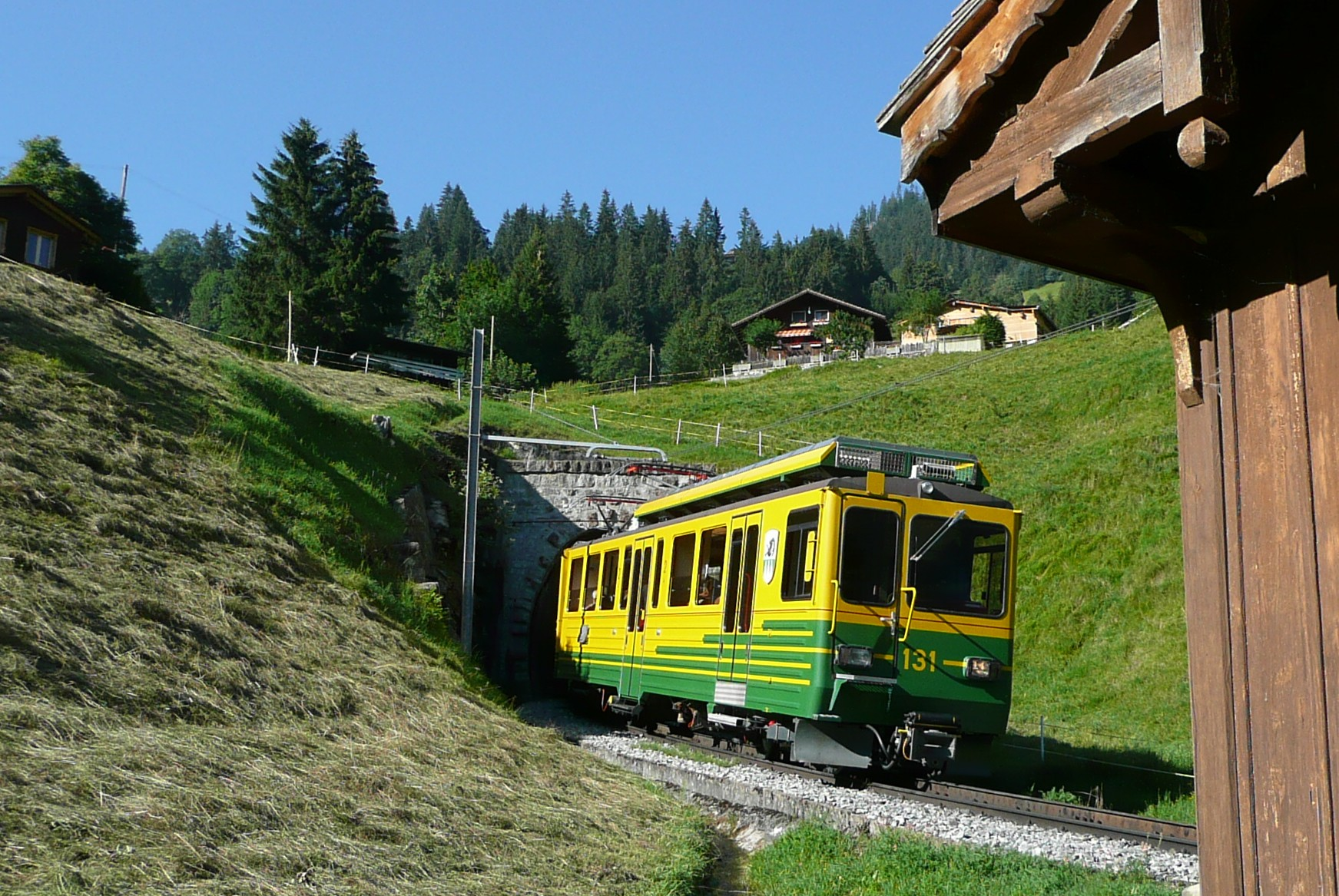 Wengernalp rack railway double motor coach BDhe 4/8 131 leaving 180 degree helical tunnel below Wengwald downhill. Line Lauterbrunnen-Kleine Scheidegg – 2009-08-05